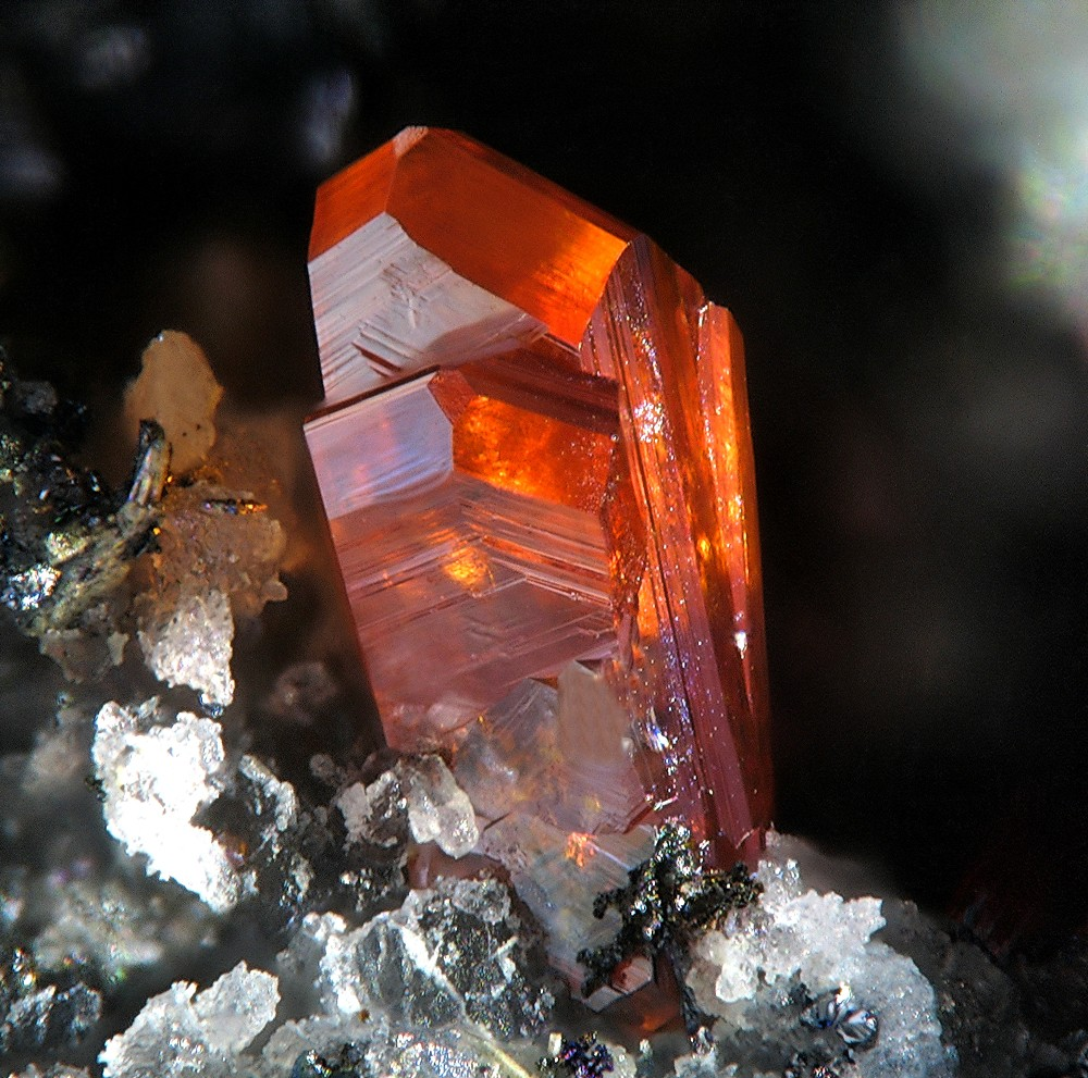 Xanthoconite Locality: Imiter Mine, Boumalne-Dadès, Ouarzazate Province, Souss-Massa-Draâ Region, Morocco (Locality at ) Picture width 2 mm. Collection and photograph Christian Rewitzer This Photo was Photo of the Day - 28th Mar 2009